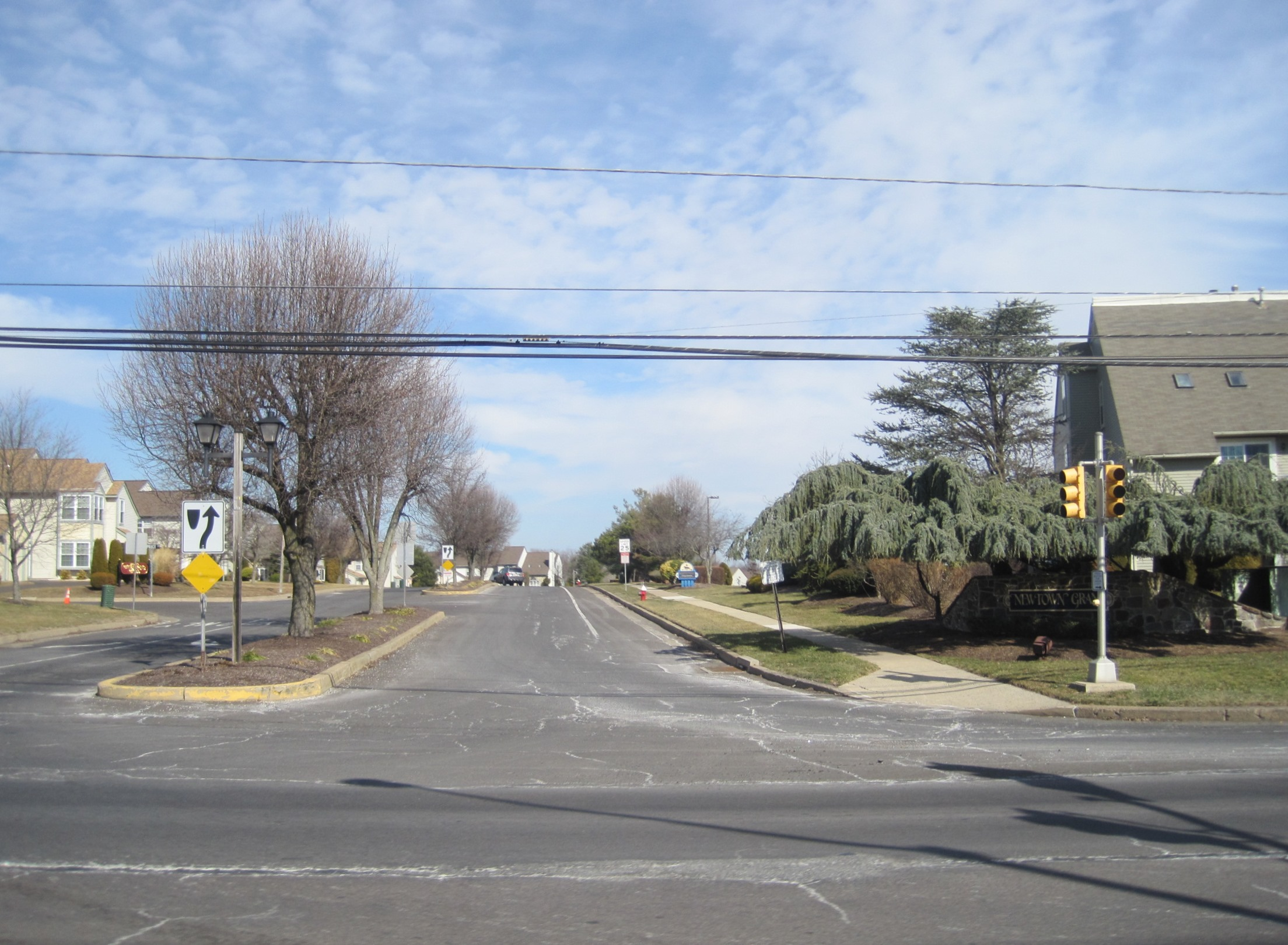 Photo showing Newtown Grant, Pennsylvania, a census-designated place within Newtown Township, Bucks County. Photo taken along Durham Road (Pennsylvania Route 413) at North Drive.